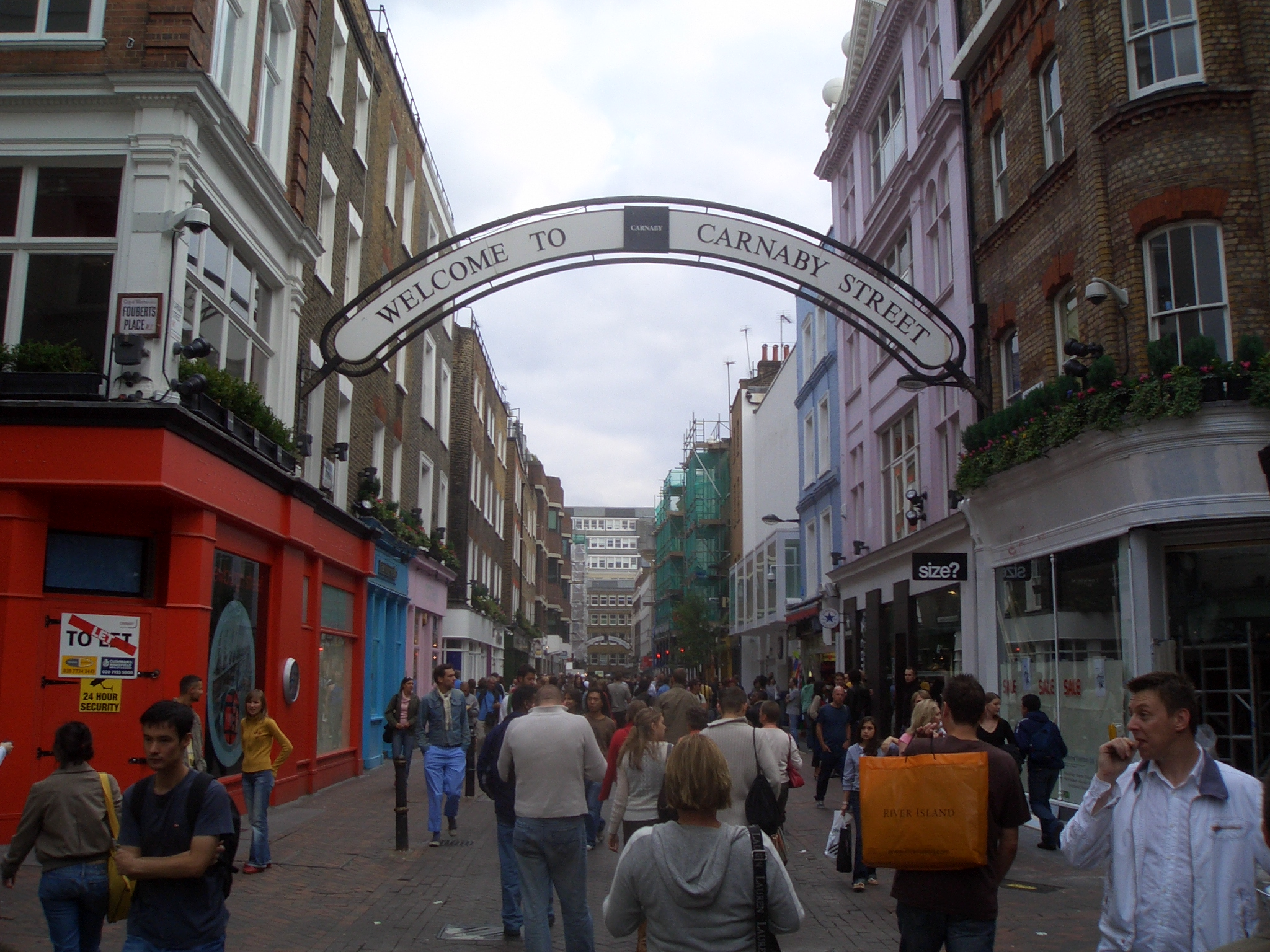 Carnaby Street, facing south. Photo taken by User:Edward, 24 September 2005.